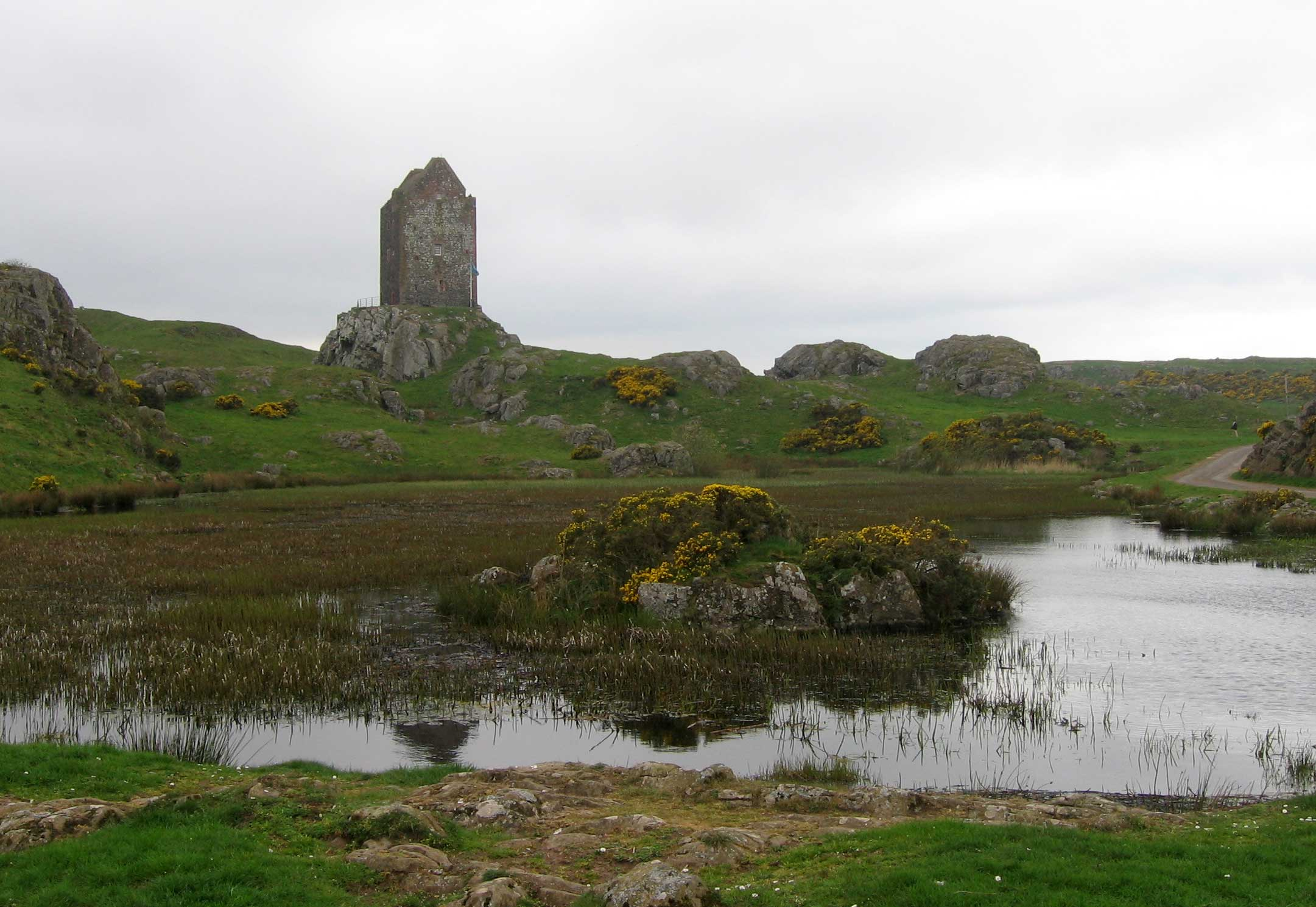 Smailholm Tower, Scotland, view from the east across the lochan from near Sandyknowe Farm, childhood home of Walter Scott.